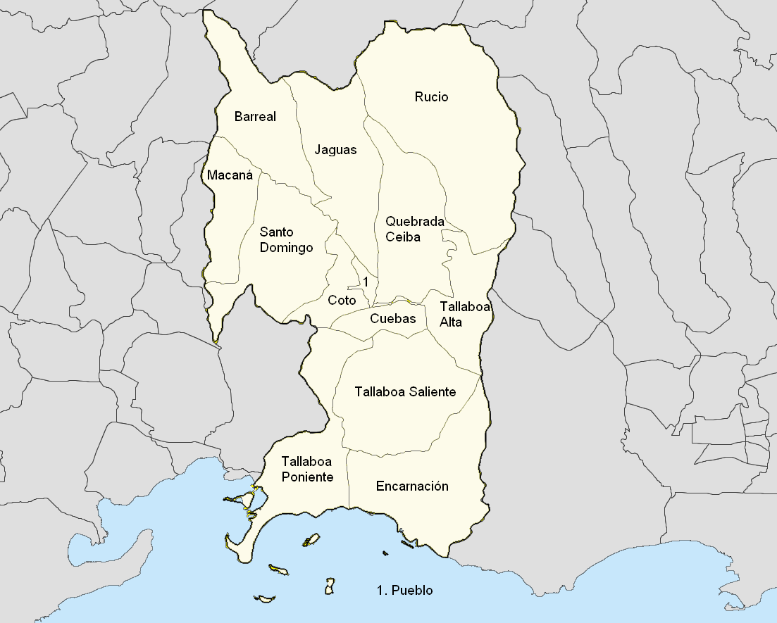 Barrios in the municipality. Map scale is 1:200,000